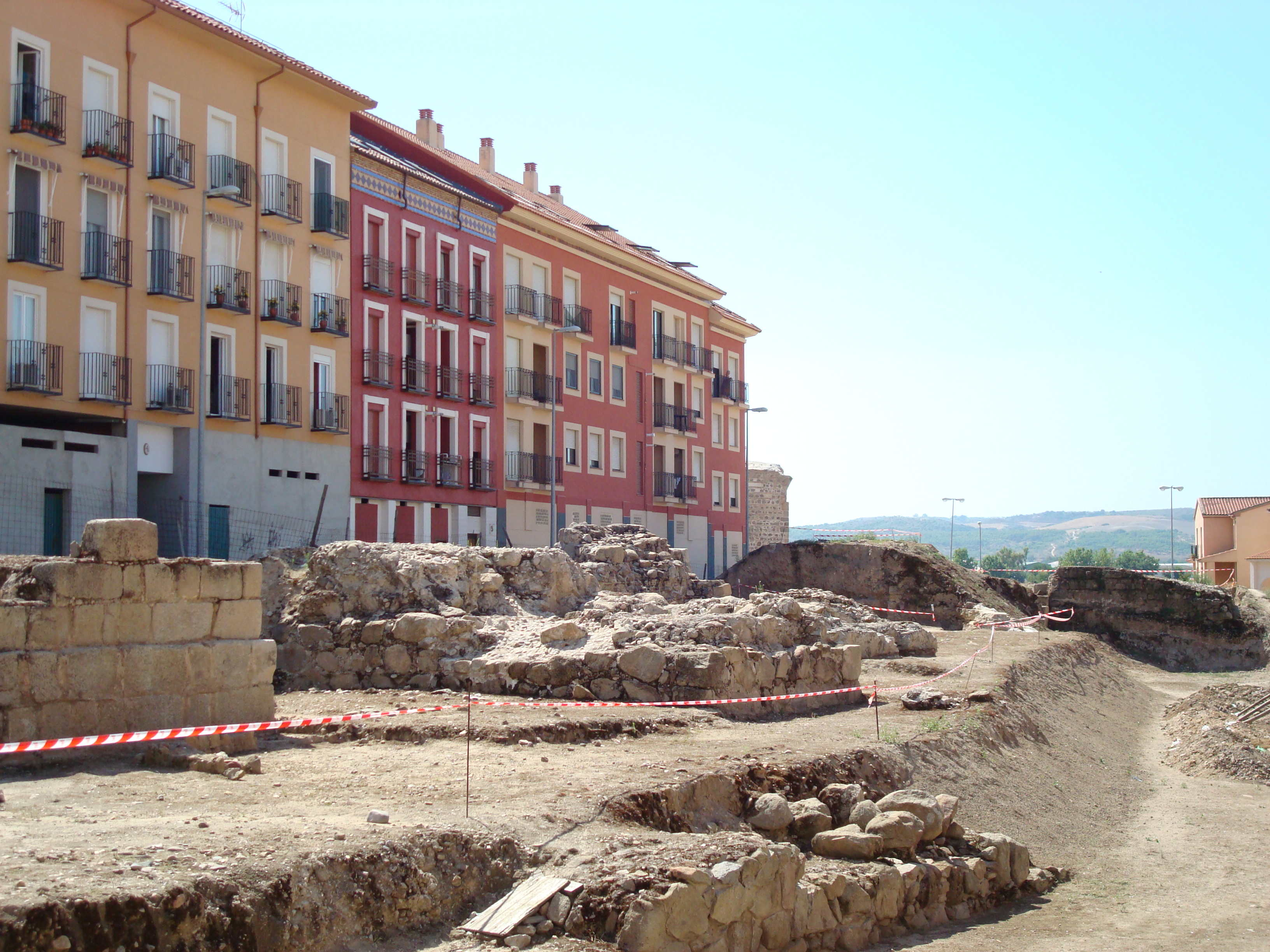 Archeological works in Talavera de la Reina. Roman and Muslims walls